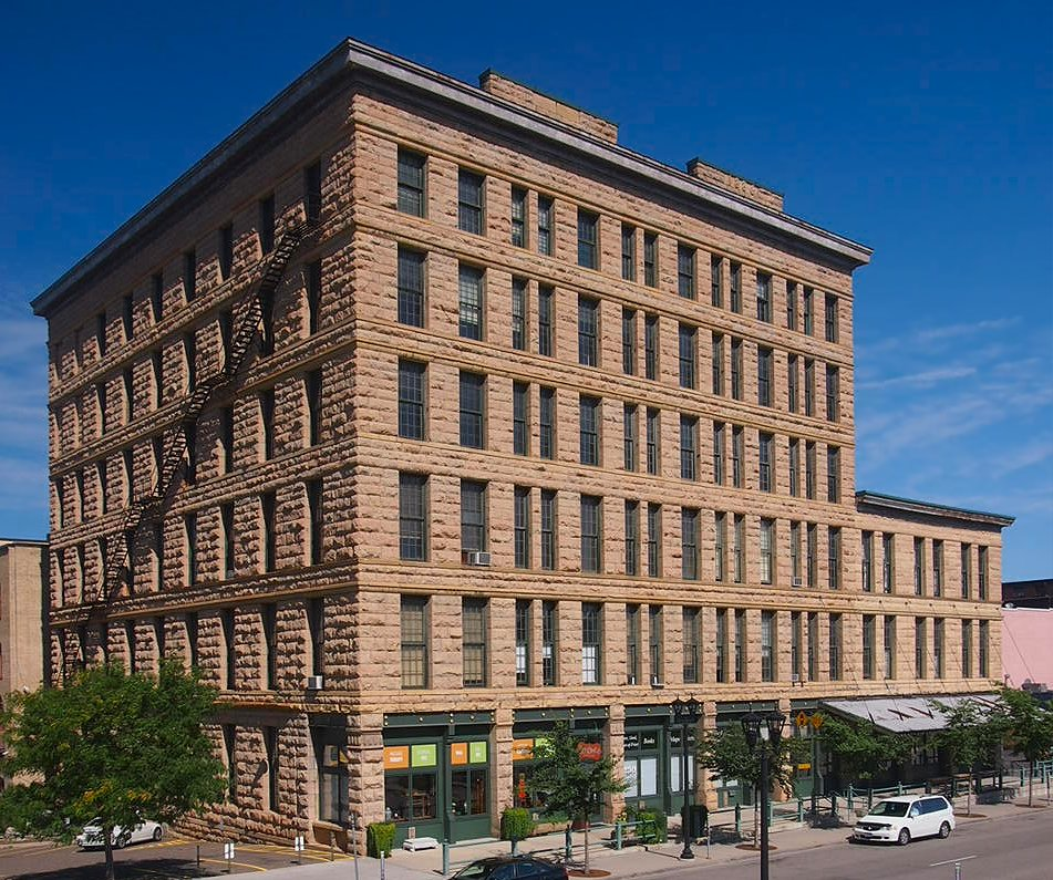 Moline, Milburn, & Stoddard Company building, 250 3rd Ave N, Minneapolis, Minnesota, USA. Viewed from the south from a pedestrian walkway on an overpass.